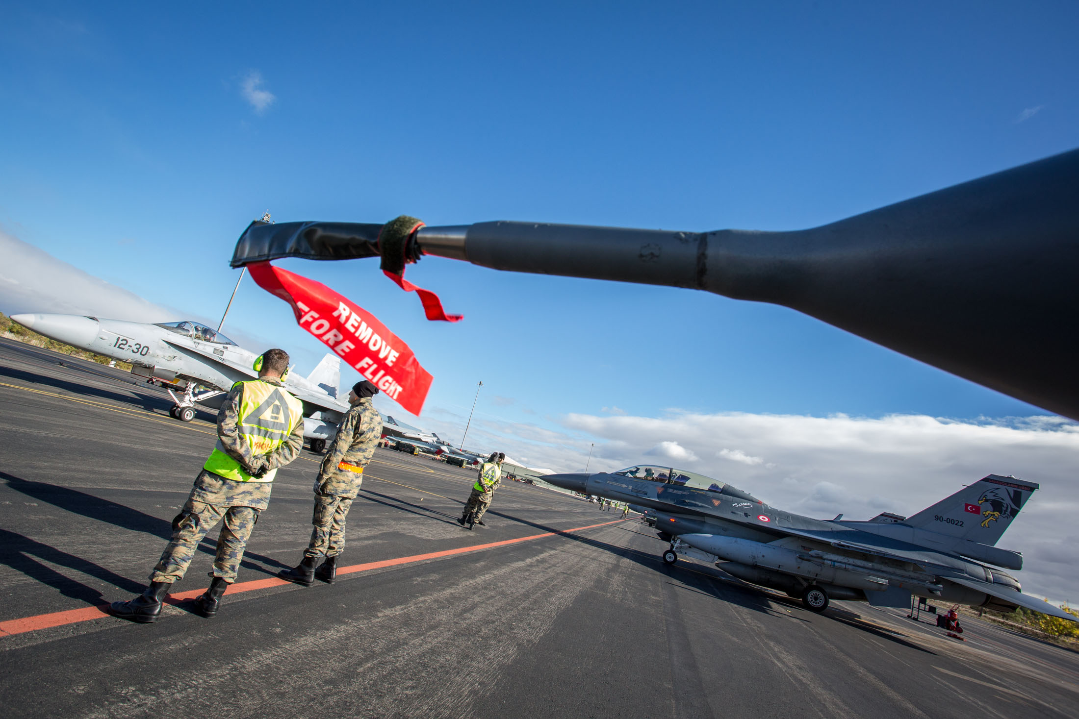 TAF maintenance personnels looking at a SPA F-18 at Albacete Air Force Base, Spain on October 28, 2015 during Trident Juncture 15. (Photo: Cynthia Vernat).